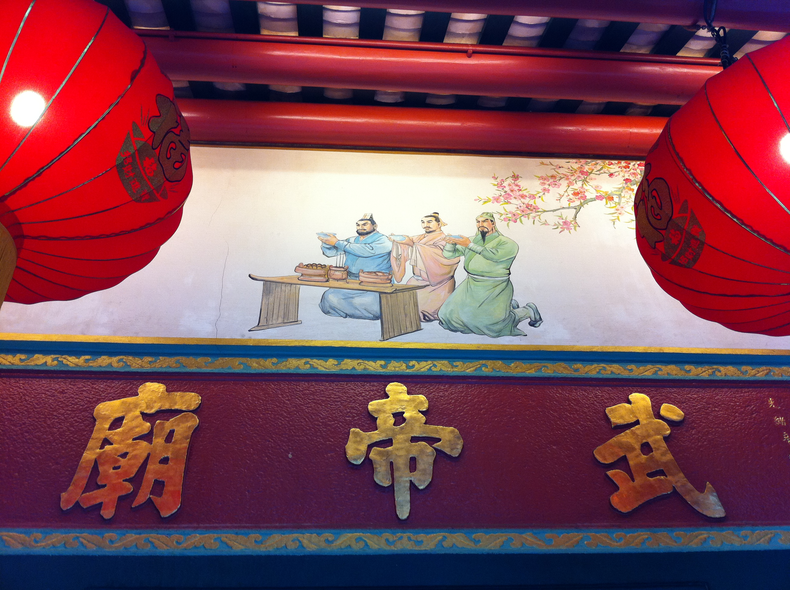 九龍深水埗關帝廟, Mo Tai Temple, Hai Tan Street, Sham Shui Po, Hong Kong